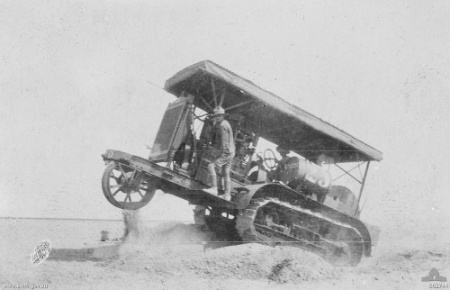 Holt tractor in Palestine, 1917 Original description at source: ID Number: B02744 Place made: Palestine: Beersheba Area, Beersheba Date made: September 1917 Physical description: Black & white Summary: A 15 ton Holt Artillery tractor, which was used for the transport of engineering stores during the operations at Beersheba. A barrel is situated next to the driver and has the number 23 is painted on its side and L235? is painted on its end. A soldier is standing on a running board on the outside of the tractor. Credit line: Lent by Captain Howells. Copyright: Copyright expired - public domain Copyright holder: Copyright Expired Related conflict: First World War, 1914-1918